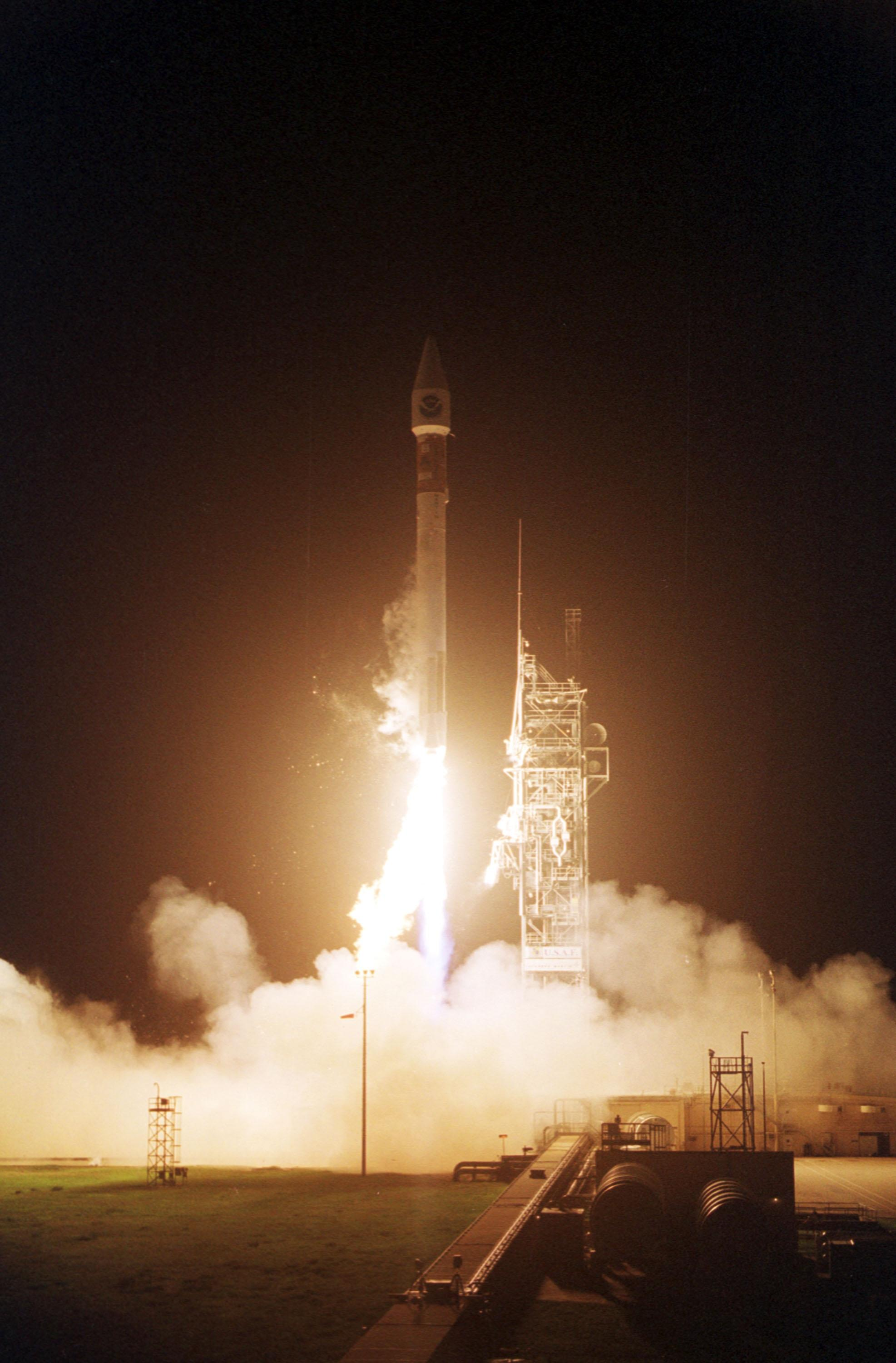 With a burst of light followed by rolling steam clouds, the Atlas II rocket carrying the GOES-M satellite roars into the black sky. Liftoff occurred at 3:23:01EDT. EDT from Launch Complex 36-A, Cape Canaveral Air Force Station. GOES-M is the last in the current series of advanced geostationary weather satellites in service. GOES-M has a new instrument not on earlier spacecraft, a Solar X-ray Imager, which can be used in forecasting space weather and the effects of solar storms